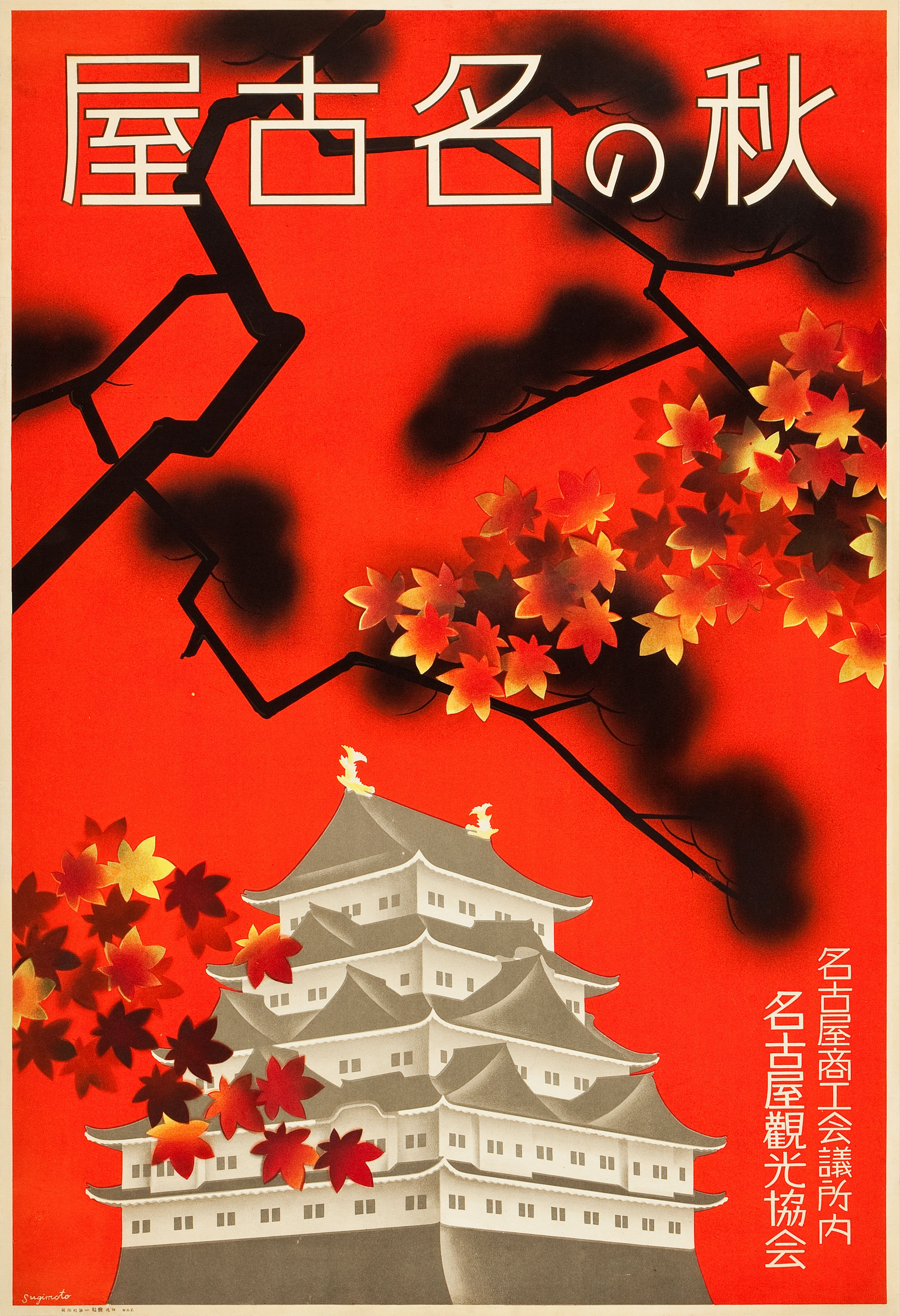 Autumn in Nagoya (Nagoya Tourism Bureau, 1930s). Japanese Poster (24.5" X 36").